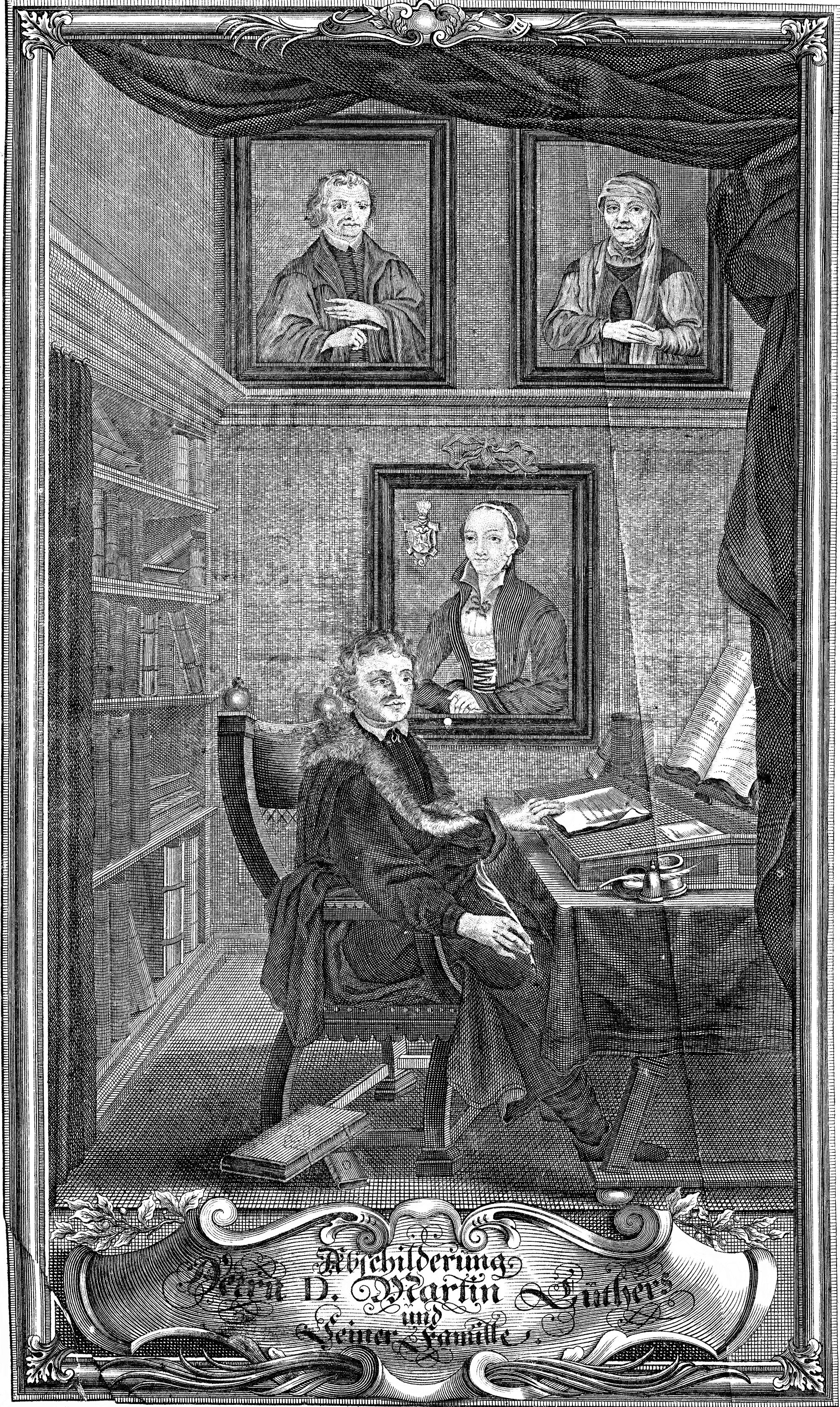 Portrait of Martin Luther (1483-1546), a German priest, pastor, theologian, and reformer, at work. Luther seated at his desk with paper, pen, and ink. On the wall above Luther are portraits of his Father, Mother, and Wife. The caption is “A description of Dr. Martin Luther’s family.” The artist portrayed the entire image as a portrait in a frame. The image is from a 17th C Bible by Martin Luther .